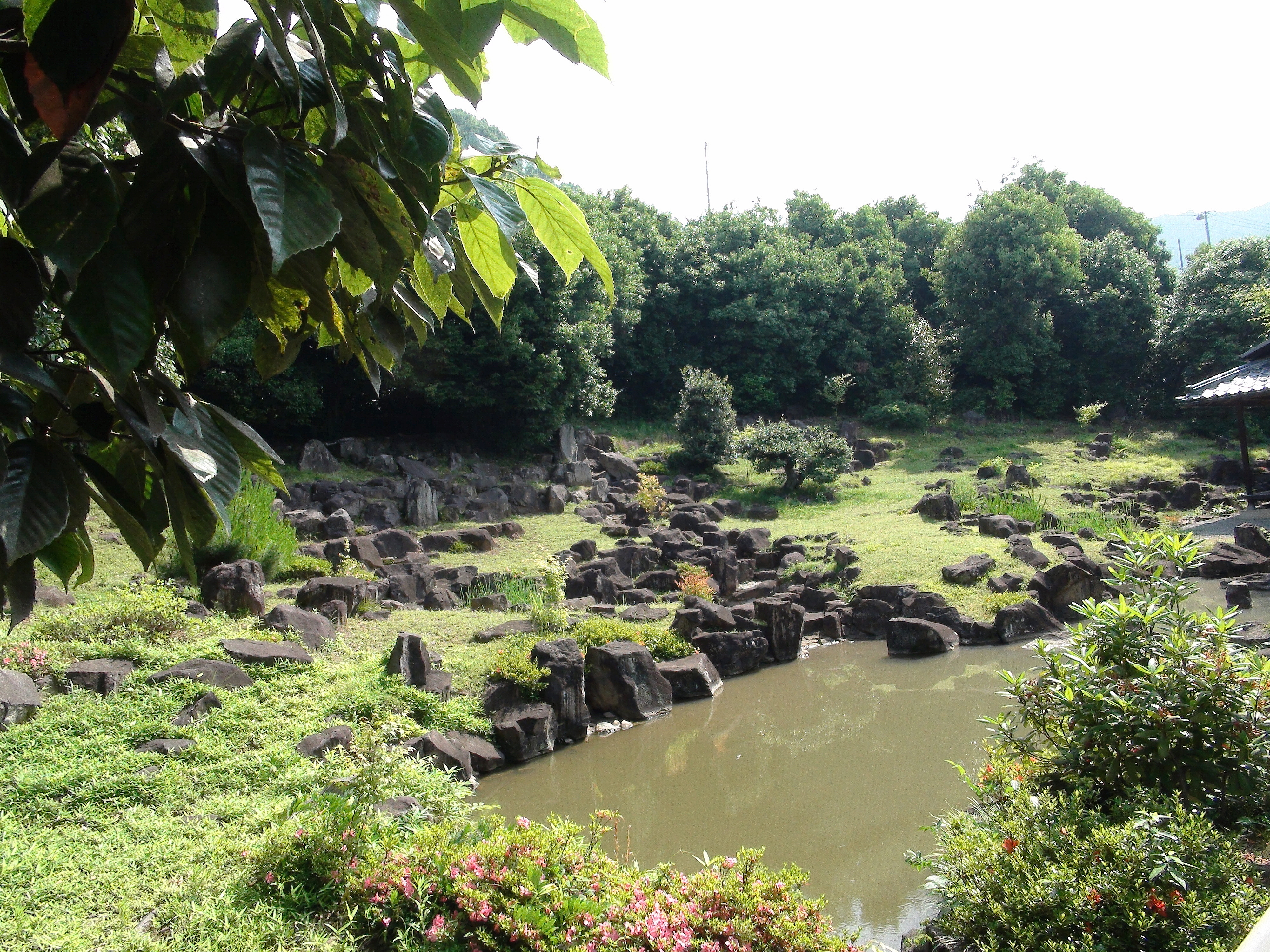 Tokoji-temple Japanese-style garden Kofu-city Yamanashi Japan